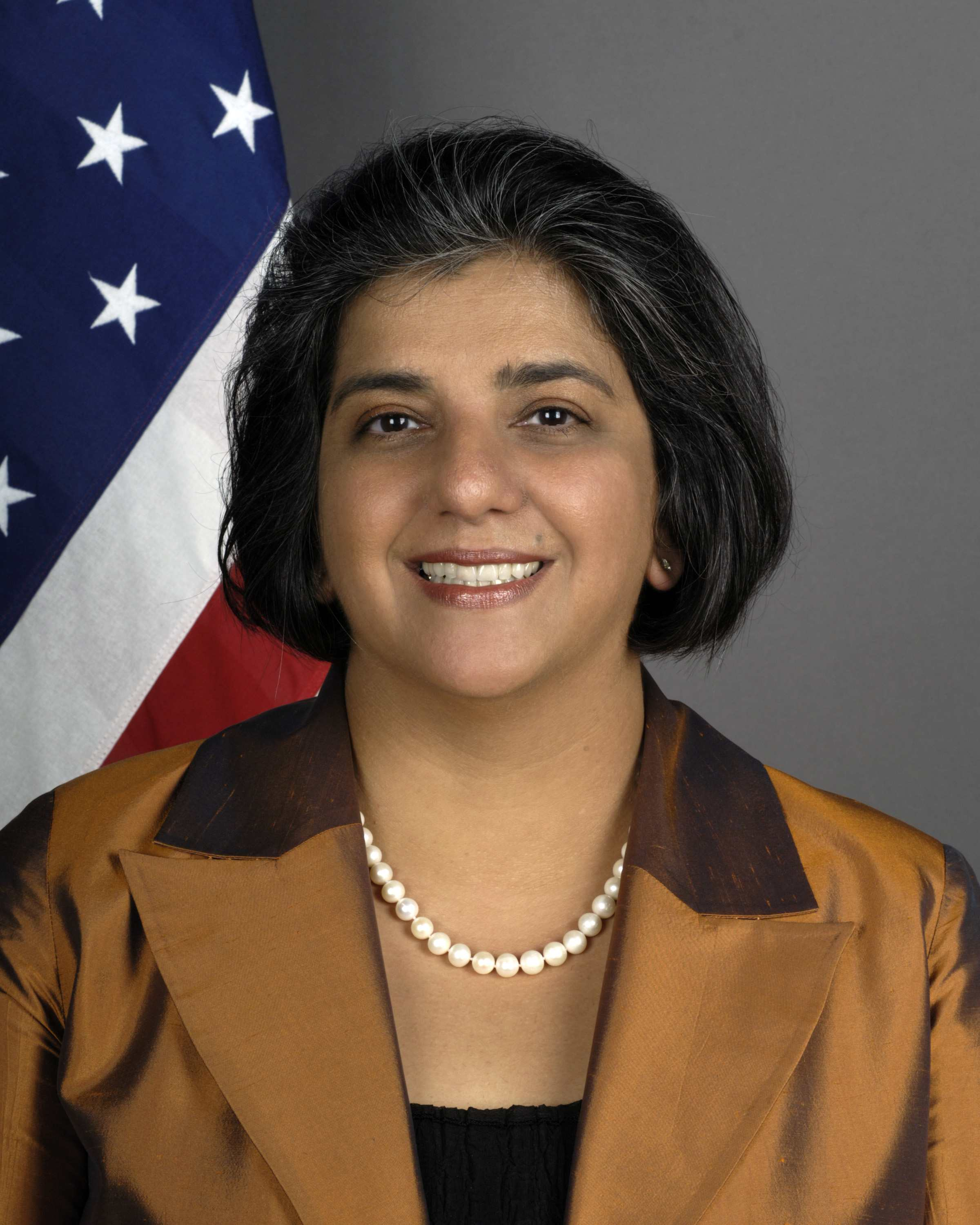 Geeta Pasi, United States Ambassador to Djibouti since 2011.